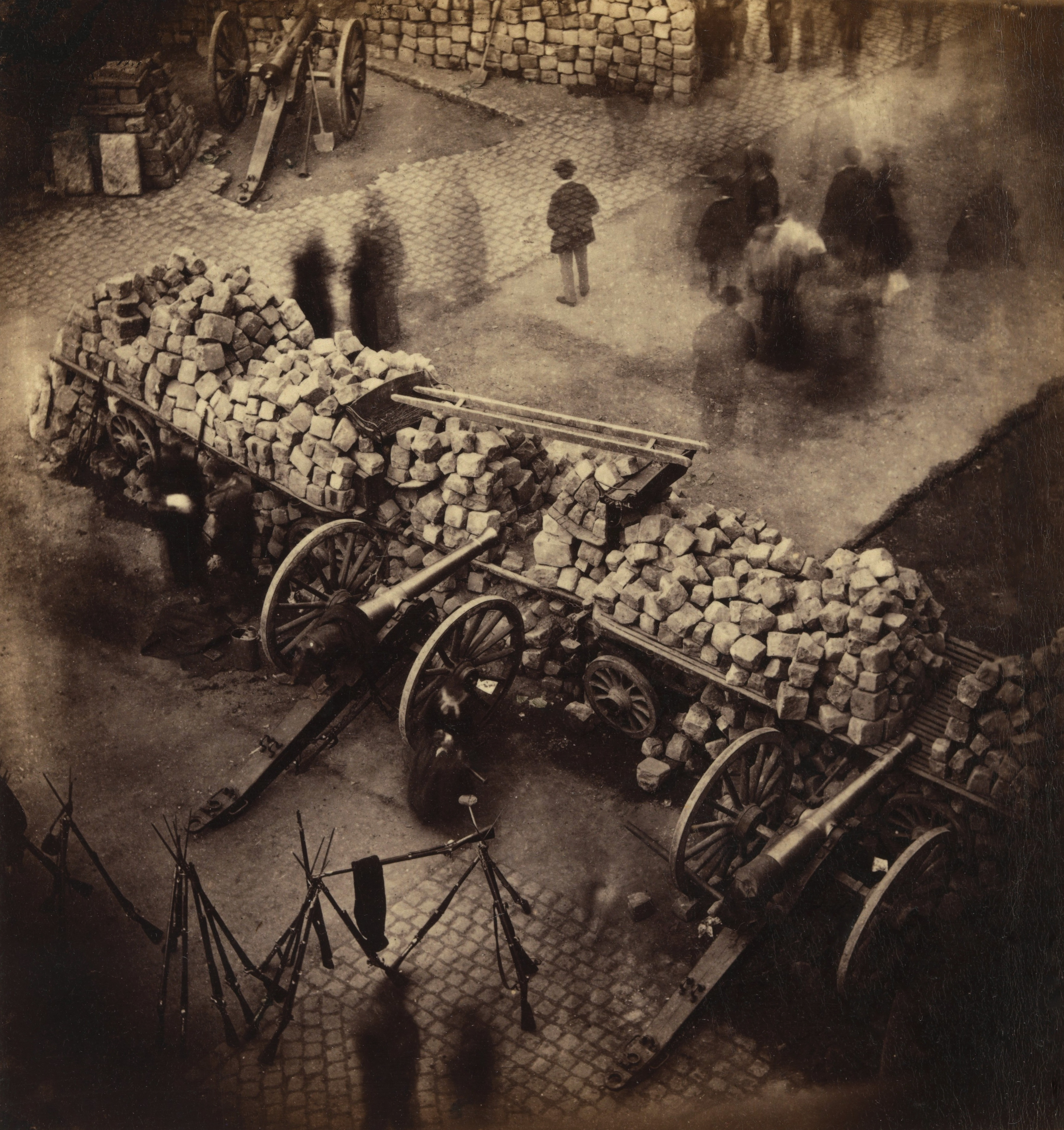 Barricades of the Paris Commune, April 1871. Corner of the Place de l'Hôtel-de-Ville and the Rue de Rivoli.